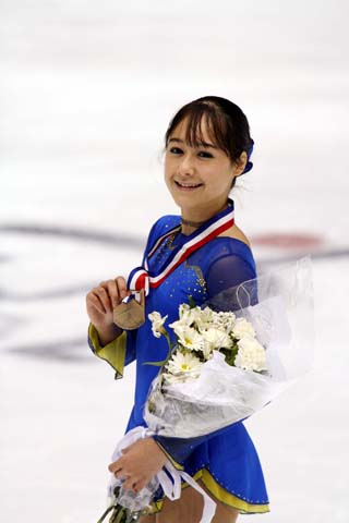 Angela Maxwell during the ladies medals ceremony at the 2007 Junior Grand Prix event in Lake Placid, New York, USA. She won the bronze medal at this event.